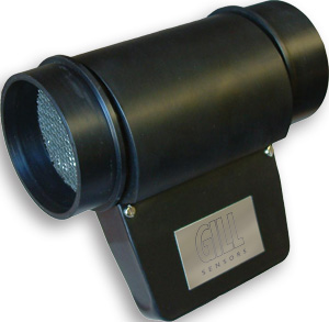 Ultrasonic Mass Airflow Sensor